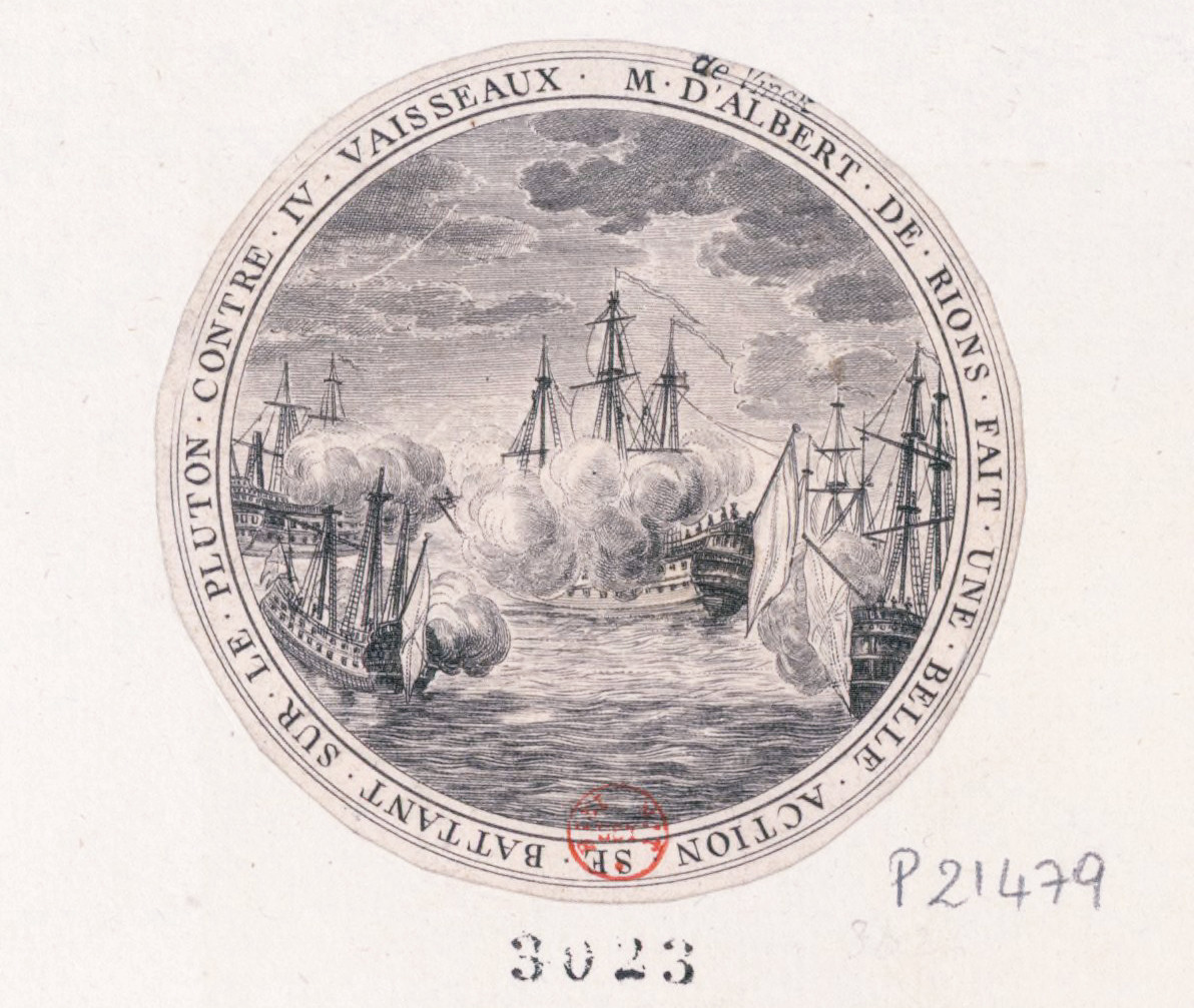 Pluto the ship of the line (74 guns) commanded by Albert de Rions in action against four British ships. Probably Battle of the Saintes, 1782.